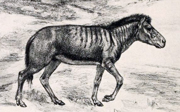 Crop of file in filename